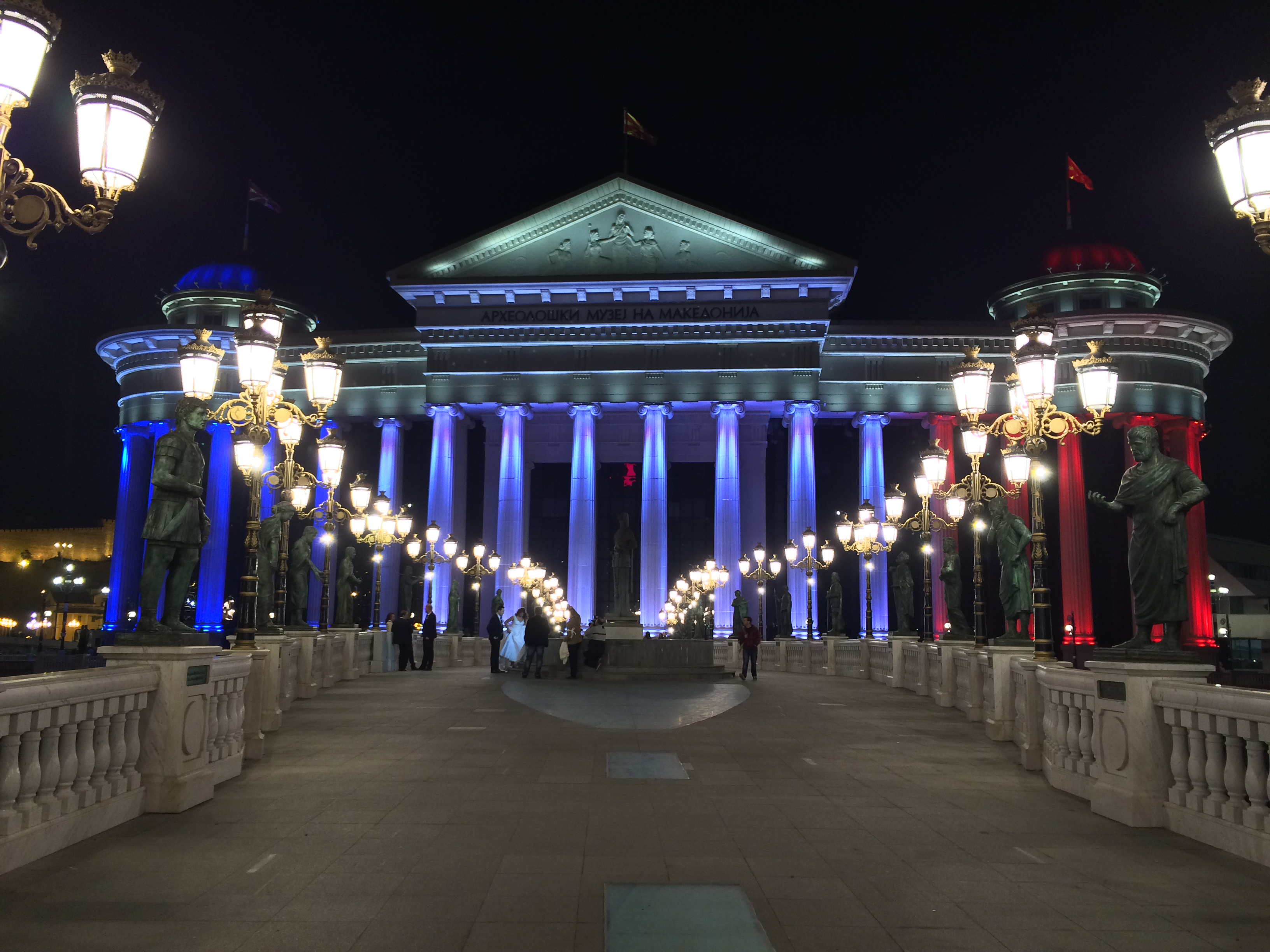 Skopje Museum of Archaeology illuminated with tricolore flag clours by LEDs after the November 2015 Paris attack.